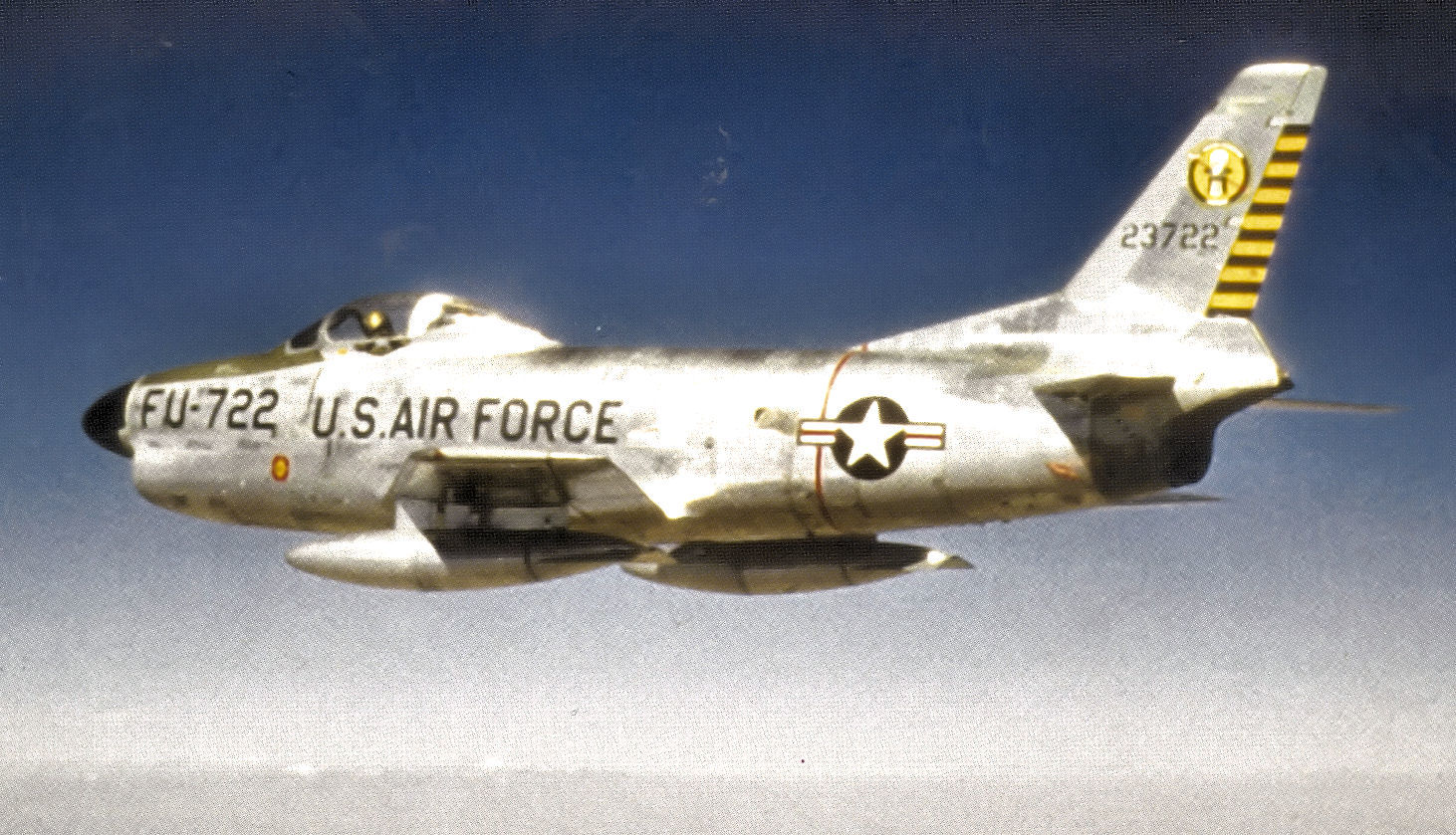 15th Fighter-Interceptor Squadron North American F-86D-40-NA Sabre 52-3722 34th Air Division, Davis Monthan AFB, Arizona, June 1957